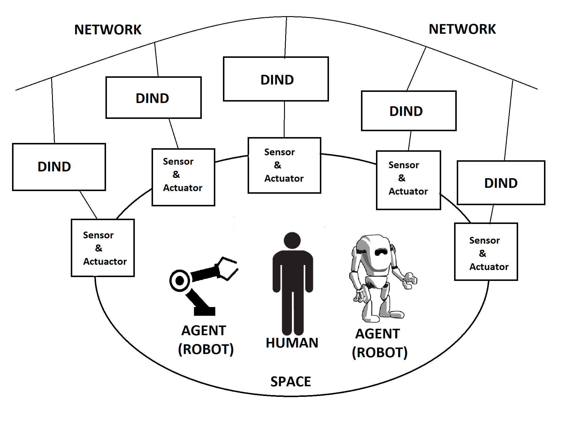 Conceptual design of an intelligent environment by J.-H. Lee and H. Hashimoto